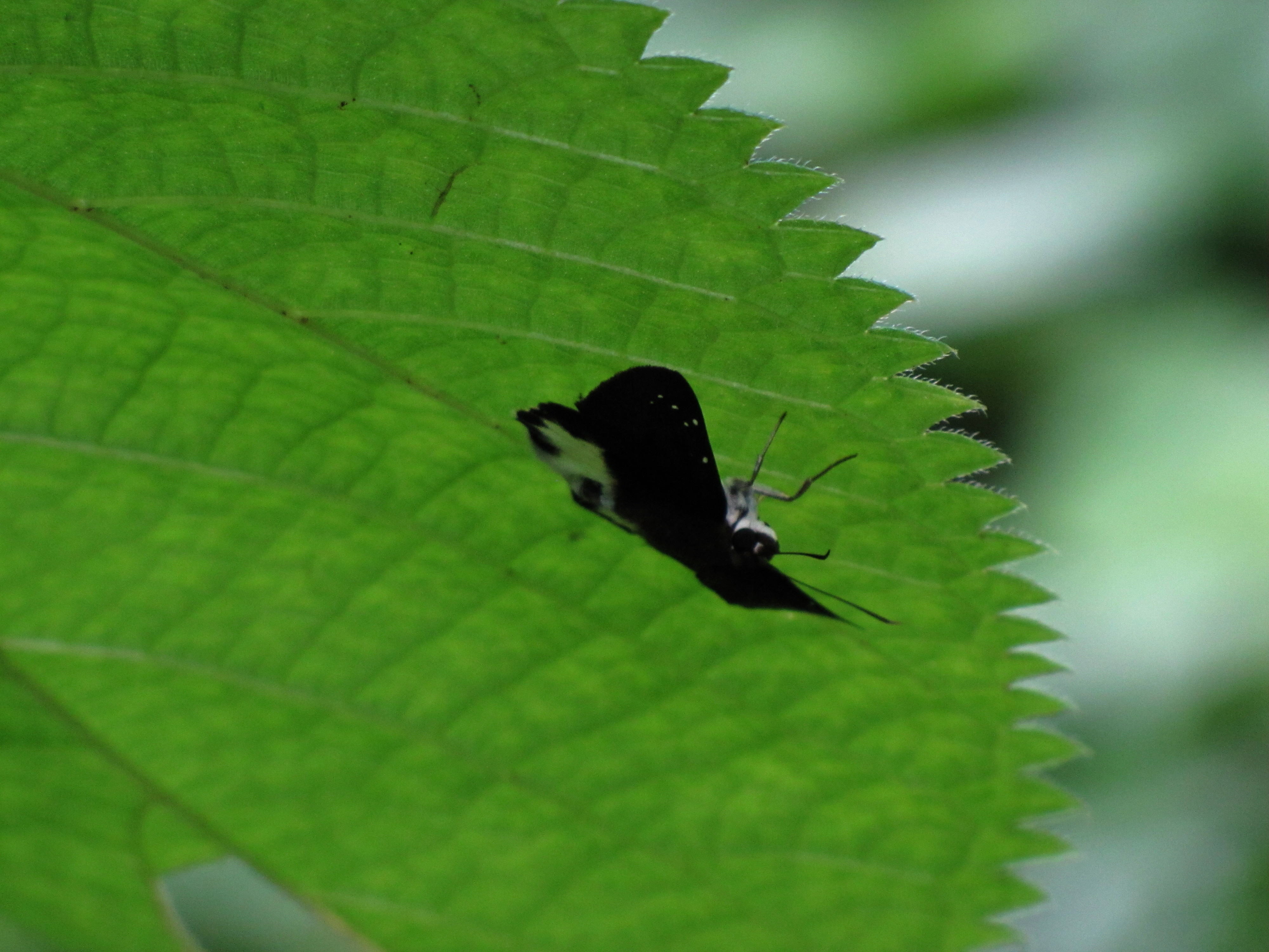 Water snow flat from Koovery, Kannur